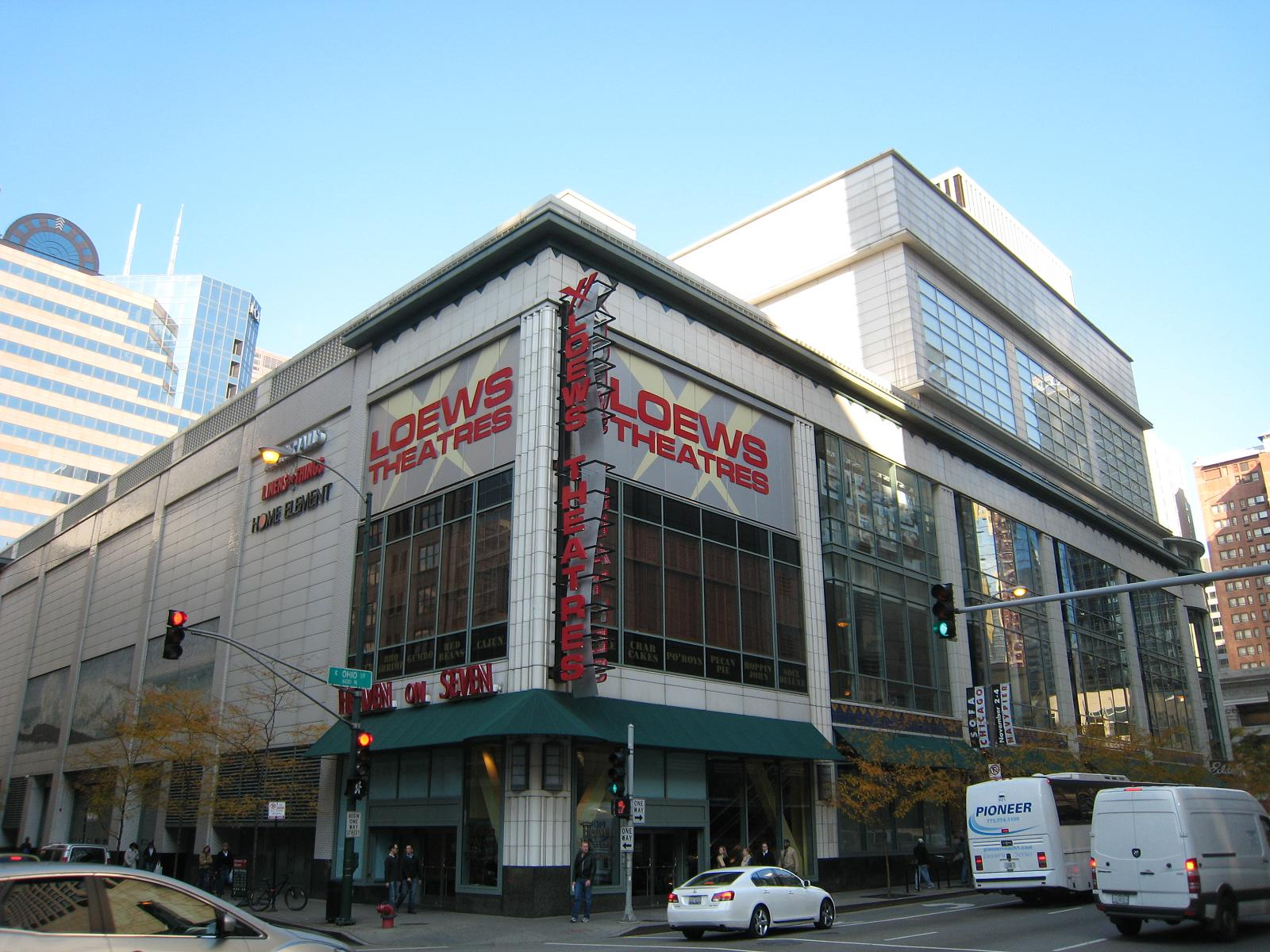 AMC Loews 600 North Michigan 9, Chicago